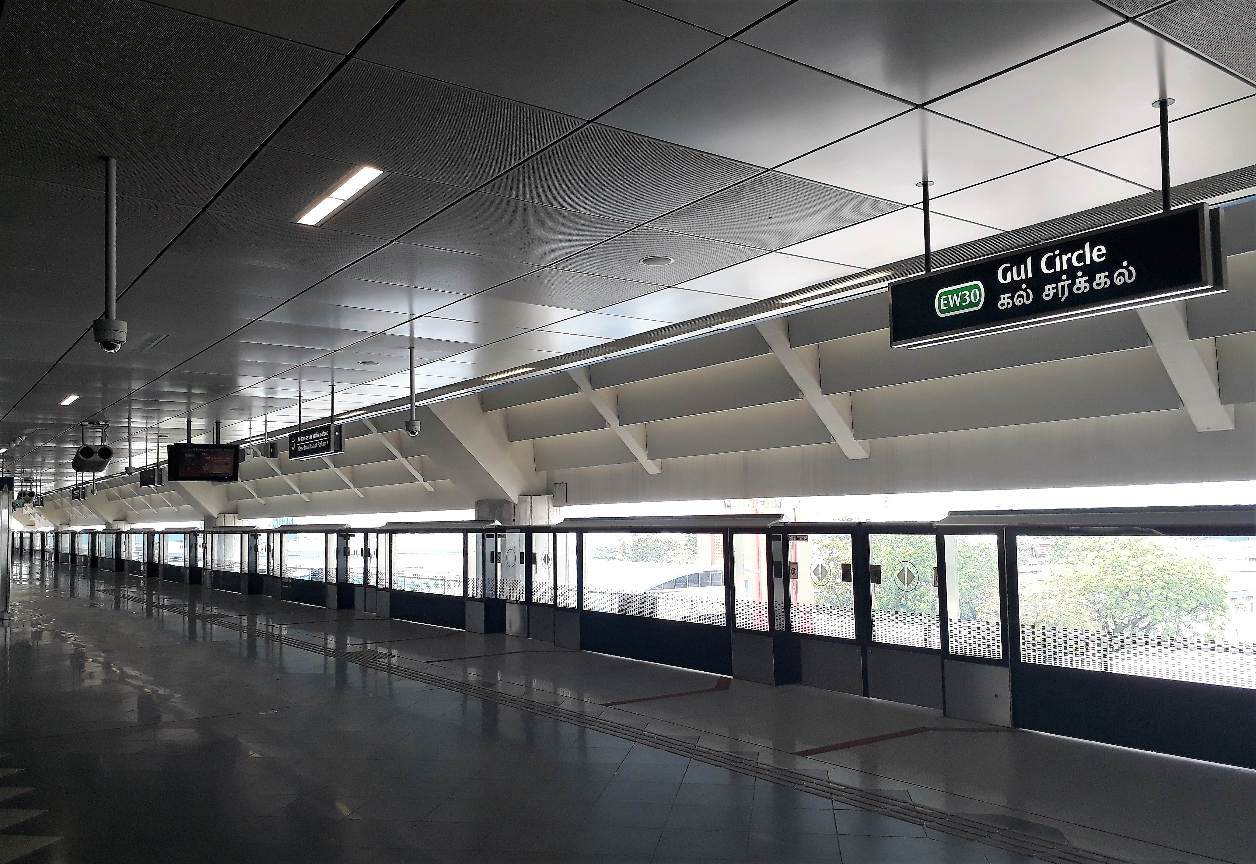 Platform C of Gul Circle